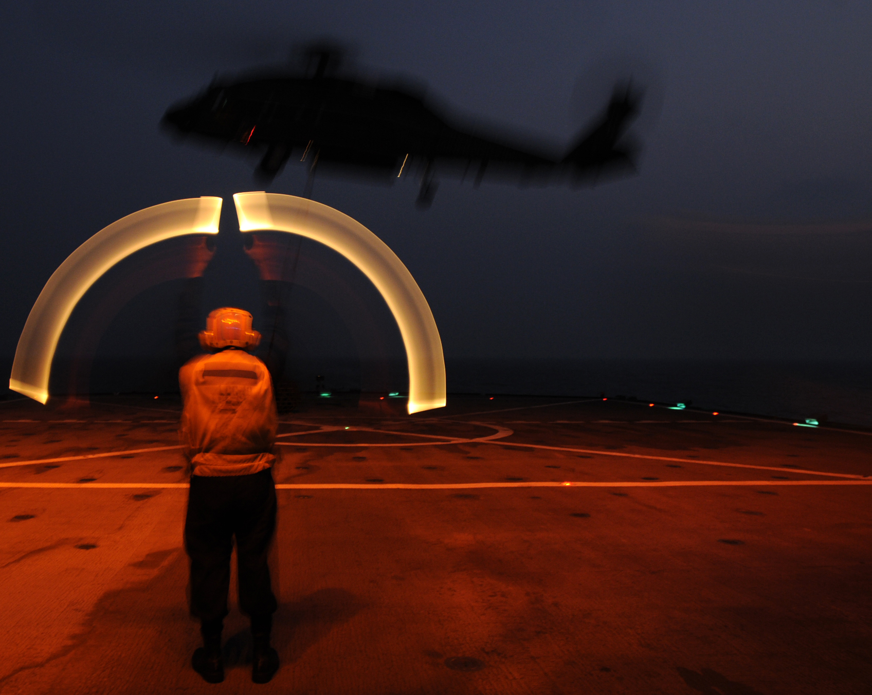 PACIFIC OCEAN (Feb. 9, 2011) Culinary Specialist 3rd Class Drew Iverson directs an SH-60F Sea Hawk helicopter to take off from the U.S. 7th Fleet command ship USS Blue Ridge (LCC 19) during nighttime vertical replenishment flight operations training. (U.S. Navy photo by Mass Communication Specialist 3rd Class Fidel C. Hart/Released)